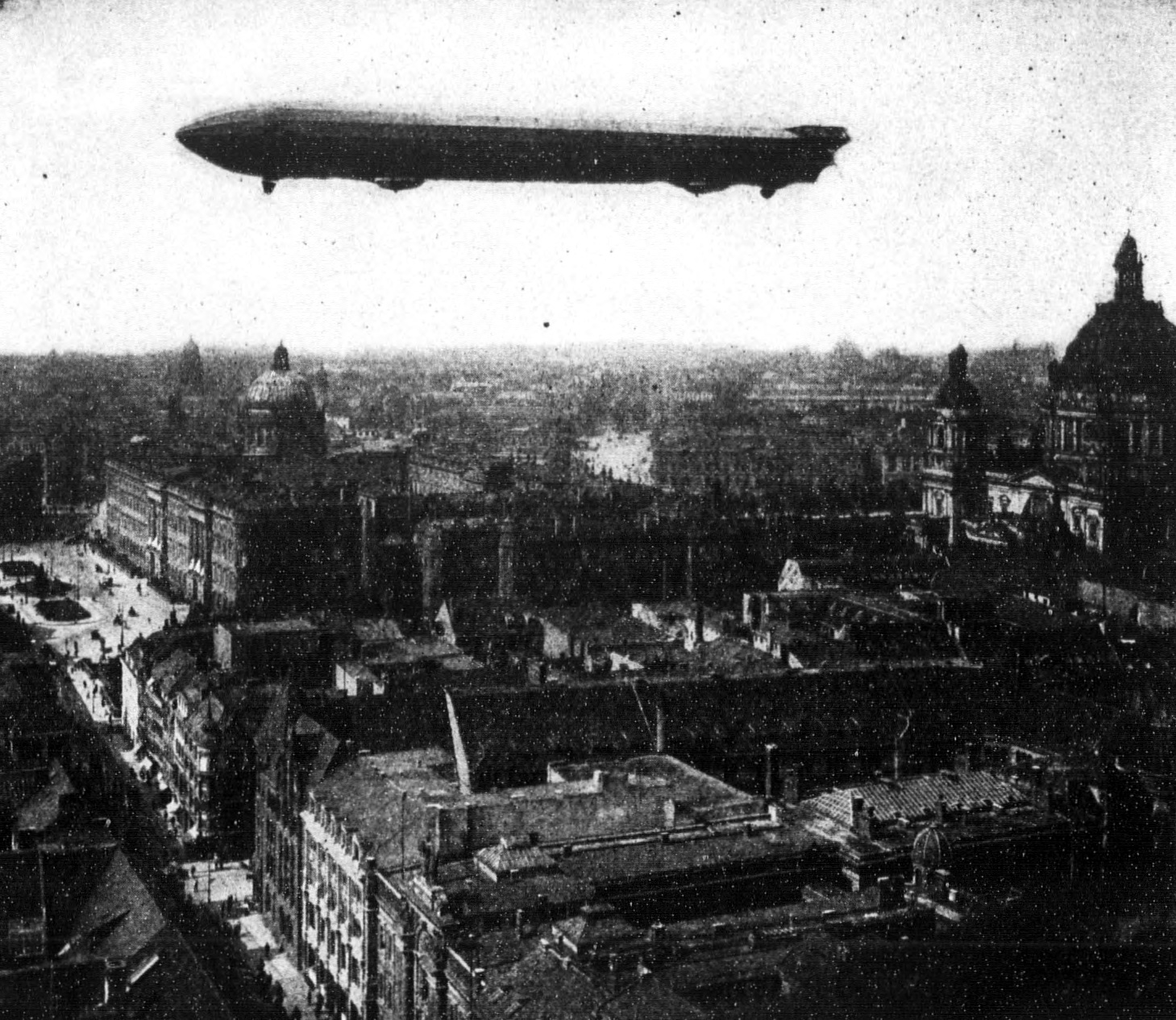 The original contemporary source only named this as the "Zeppelin III" but I believe in good faith that it is the LZ 3 based on context clues. Original caption: The Zeppelin III over Berlin, between the imperial castle and the cathedral'